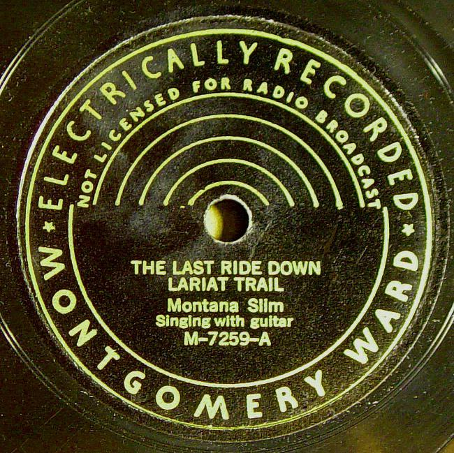 The Last Ride Down Lariat Trail by Montana Slim, Montgomery Ward ca. 1937.